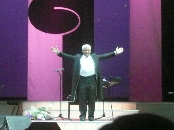 Djivan Gasparyan receiving applause (concert in Oktyabrsky concert hall, St. Petersburg, Russia, October 20, 2008)